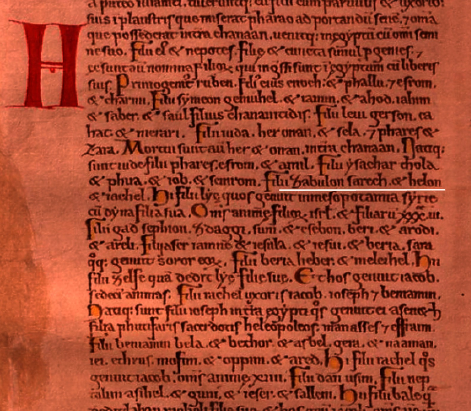 Fragment from Codex Gigas (the Giant Book, or Devil's Bible); circa 13th century - approximately 300 years before the King James Bible; Old Testament, Genesis 46:14; enumerating the children of Zebulon.